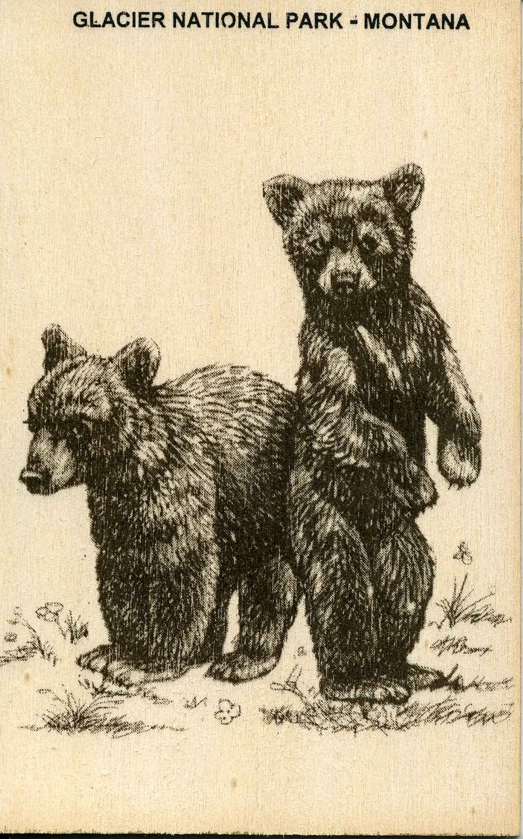 An example of the U.S. durable quality wood postcard. National Novelty Products, 2007. A souvenir from Glacier National Park, Montana. Cubs of the American Black Bear (Ursus americanus).